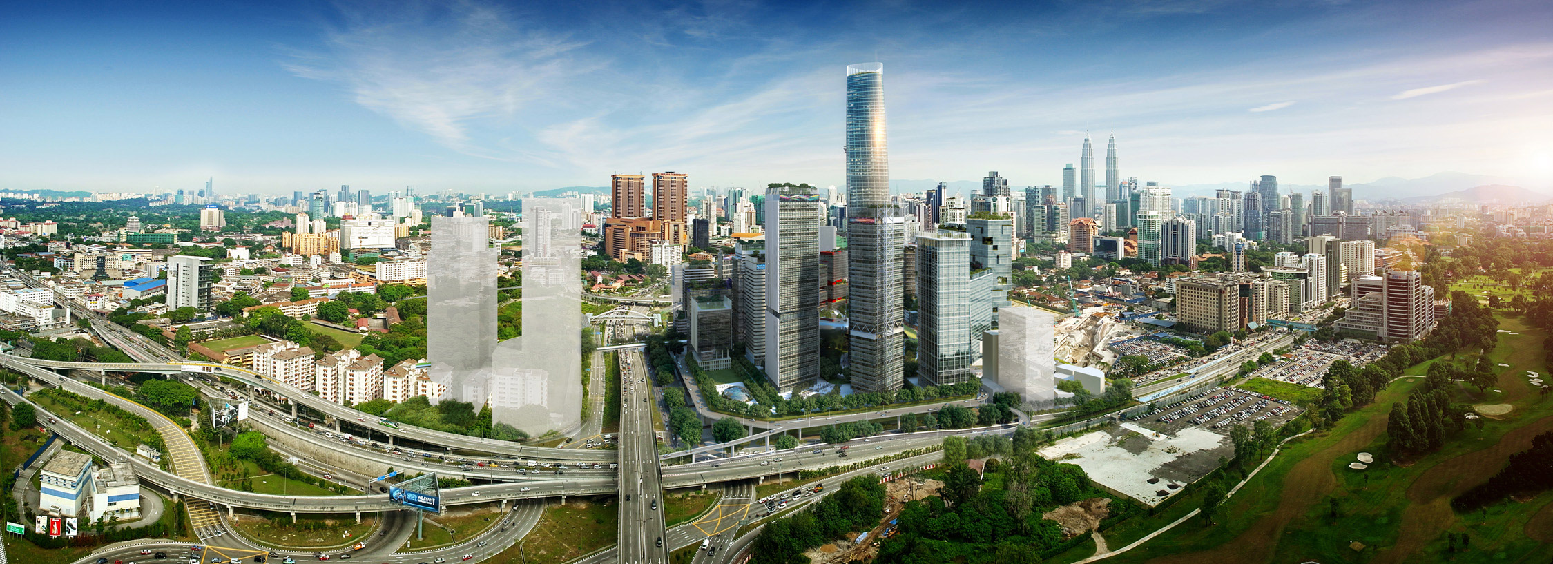 Malaysia's Financial and Business District